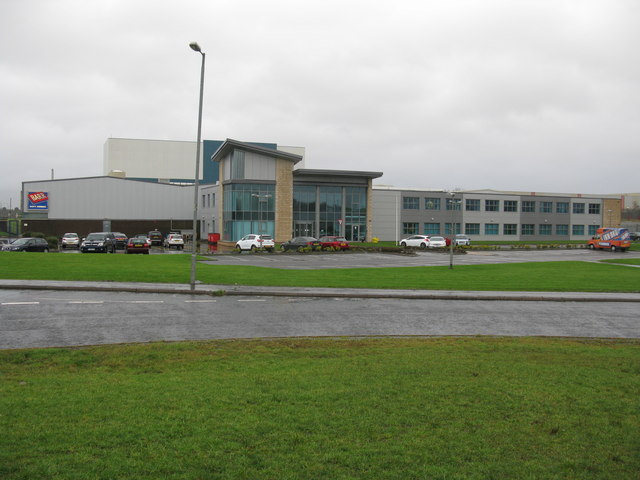 Barr Soft Drinks Factory